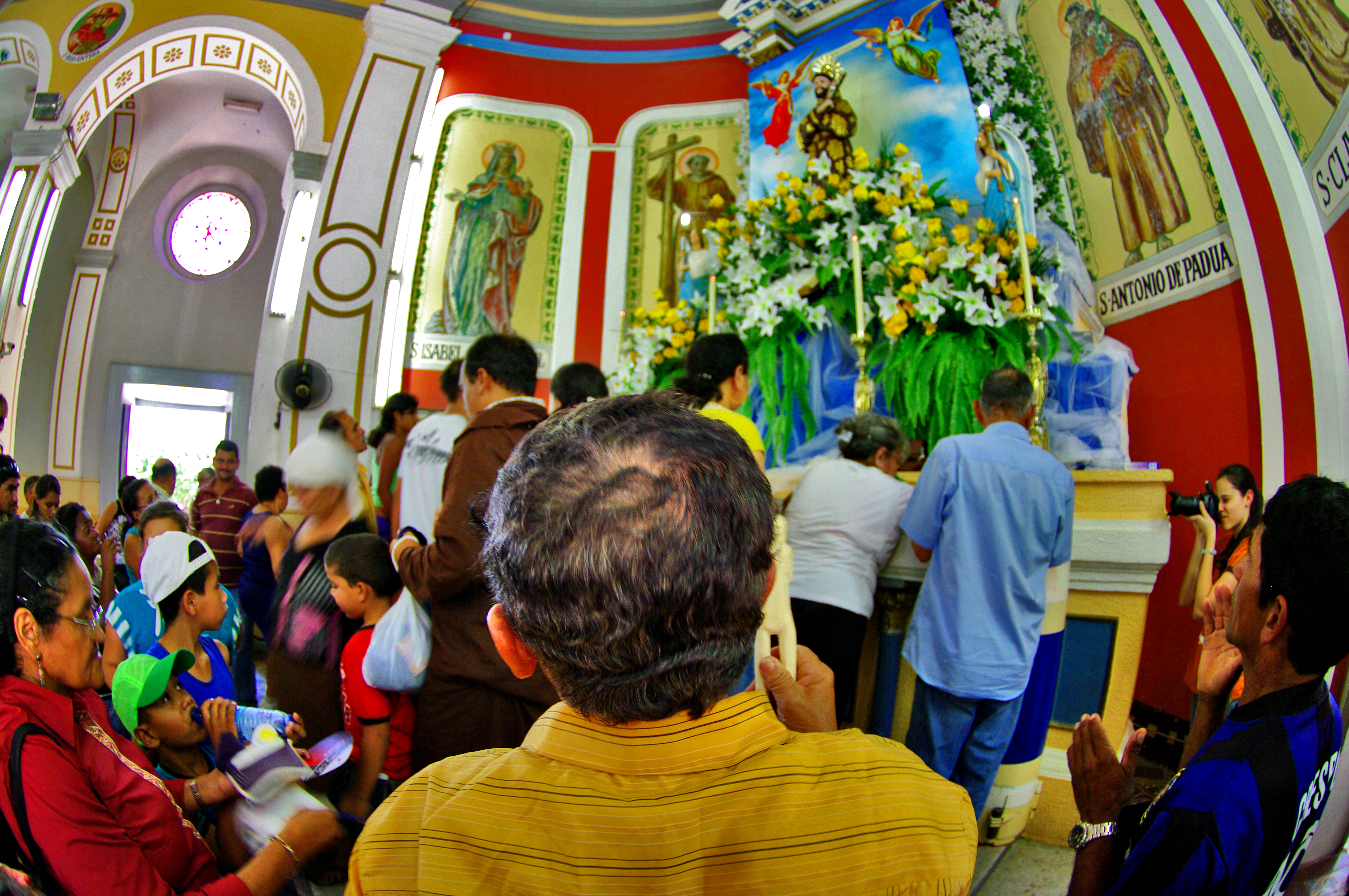 Romeiros em Canindé